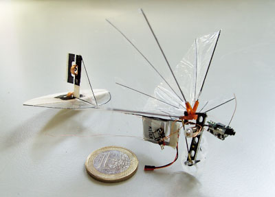 The DelFly Micro ia a 10 cm wing span 3.07 grams flapping wing MAV equipped with a camera. It was first built in 2008.